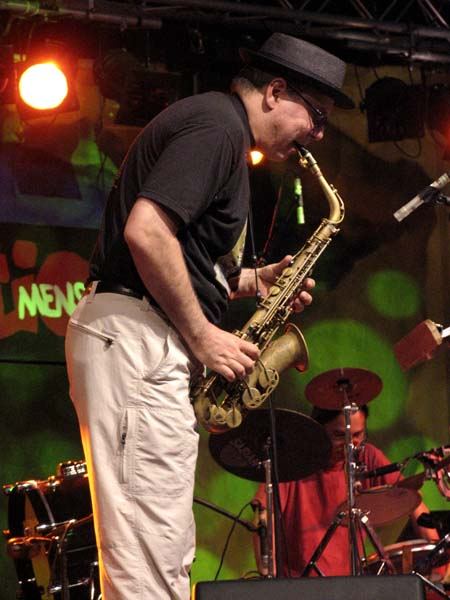 Marty Ehrlich, jazz musician, at moers festival 2004 own photo, may 30, 2004- photo: nomo/michael hoefner